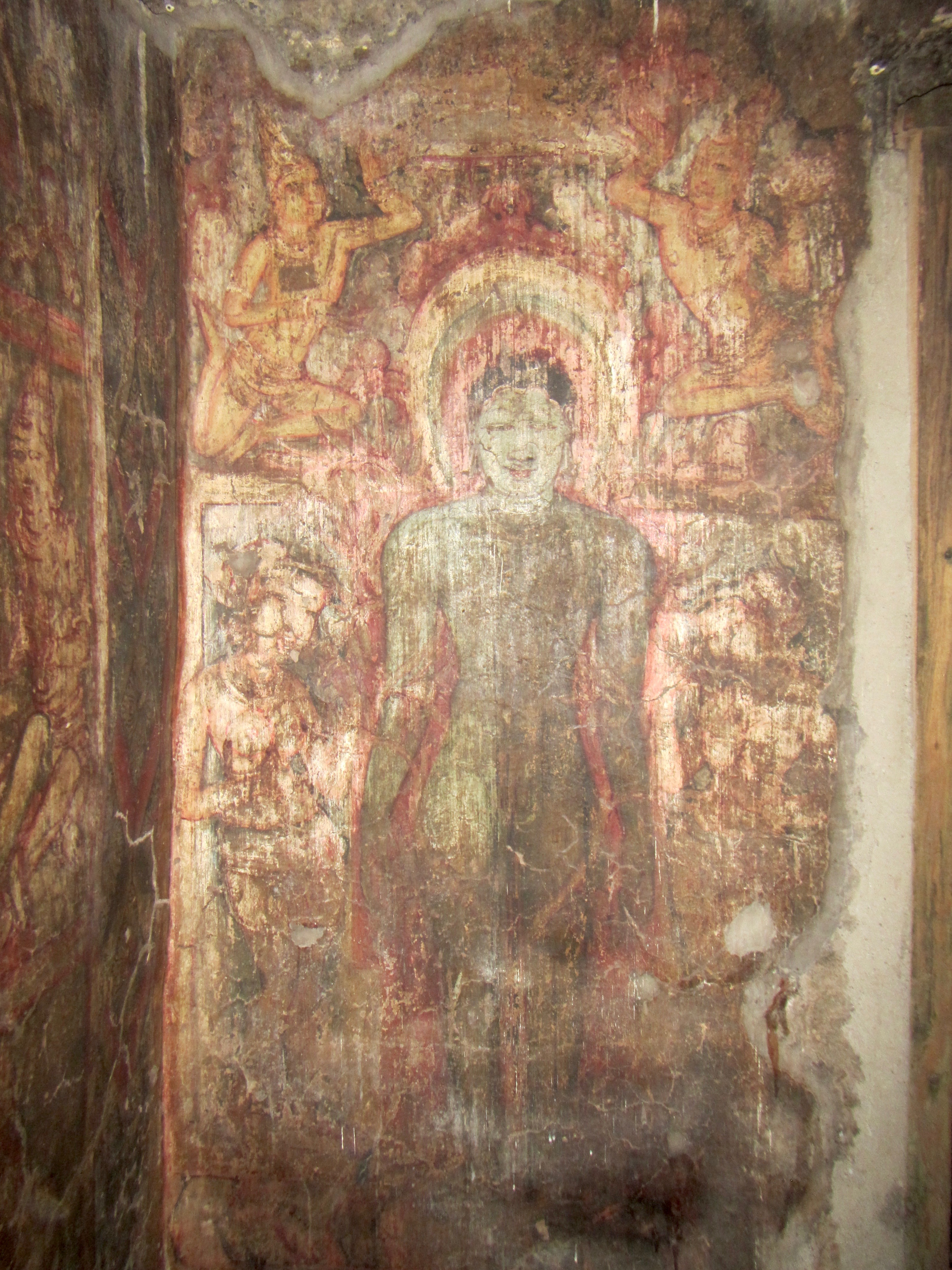 Ellora caves, Jain Jaina Jainism Digambara temples